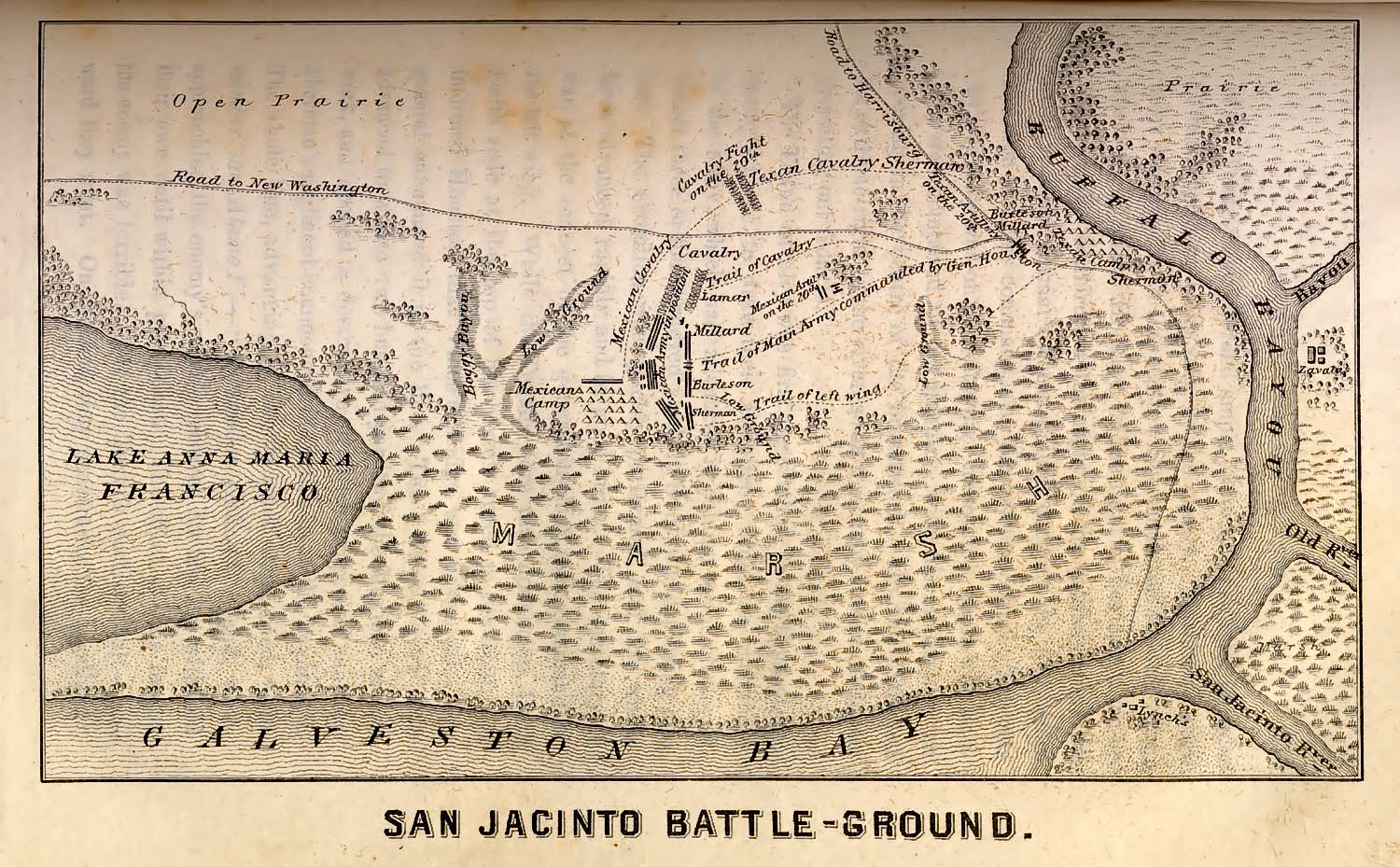 San-jacinto-battle-map2-1500.jpg San Jacinto Battle Map